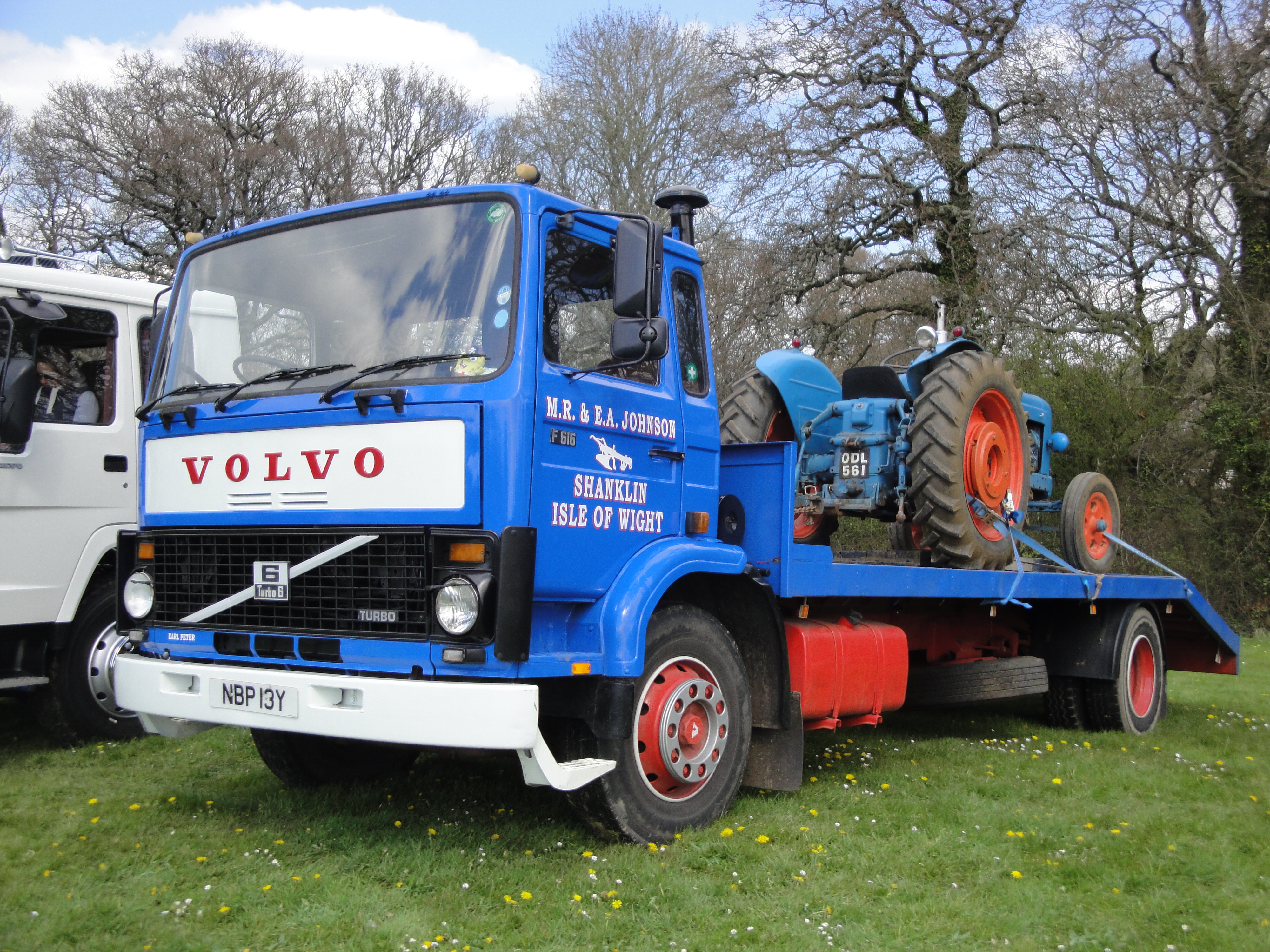 Volvo FL NBP 13Y, at Havenstreet railway station, Isle of Wight for the Bustival 2012 event, held by Southern Vectis.